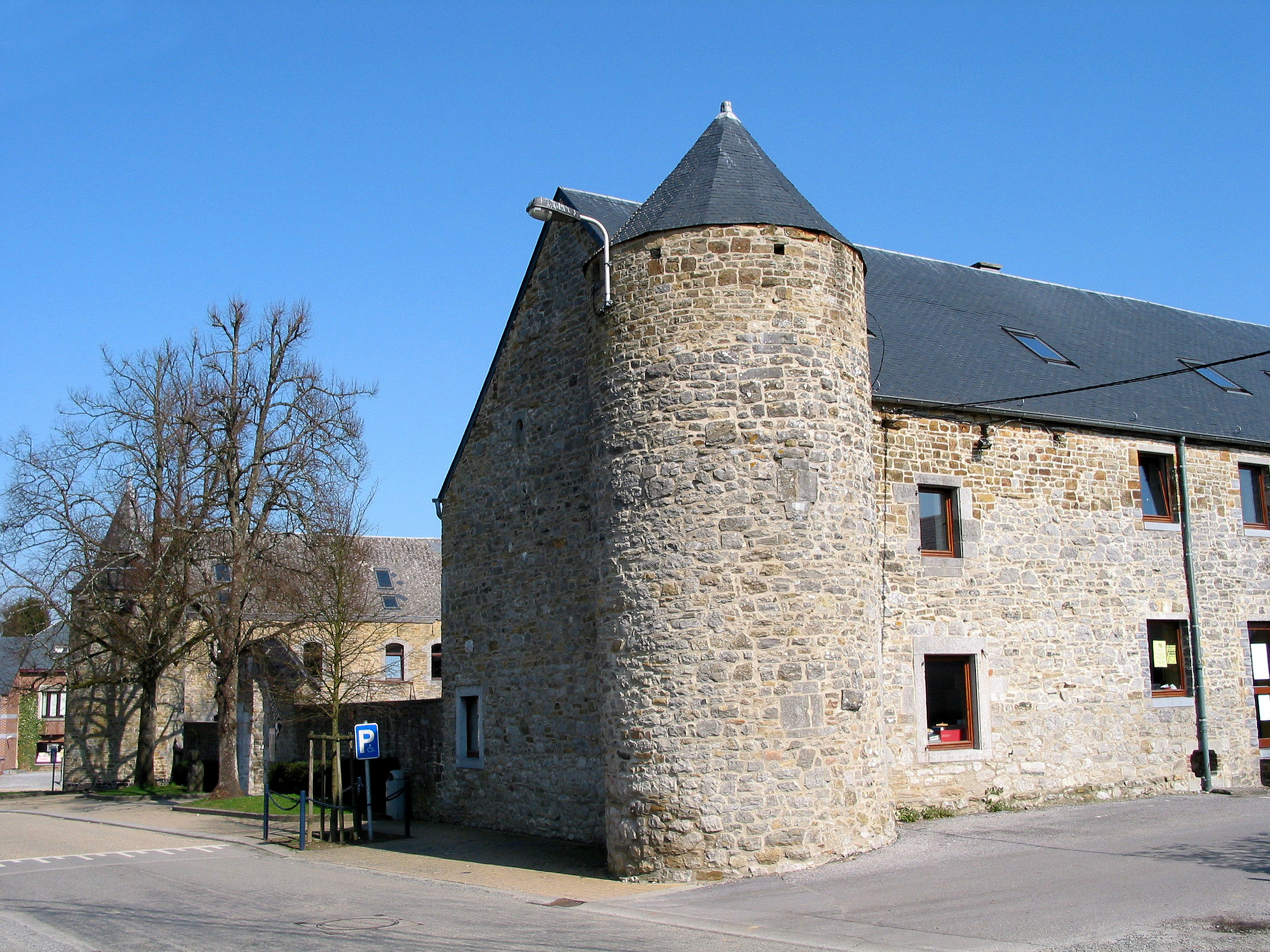 Havelange (Belgium), the "des Tilleuls" castle farm (XVIIth century).